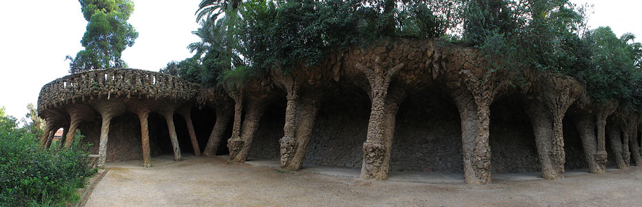 Parc Güell panoramic view, in Barcelona, Catalonia. Antonio Gaudi.